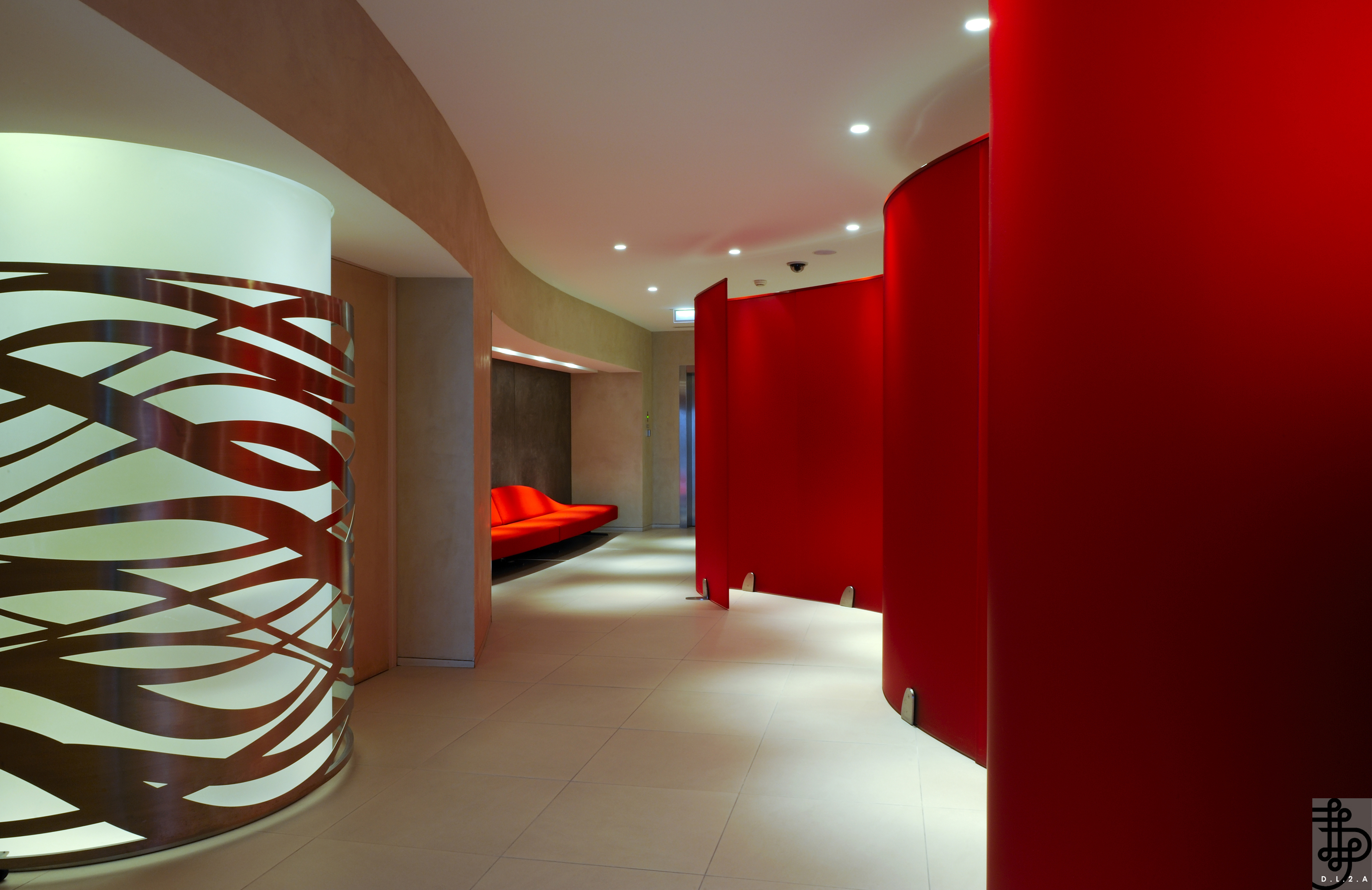 DL2A Salon première Air France PARIS CDG Roissy